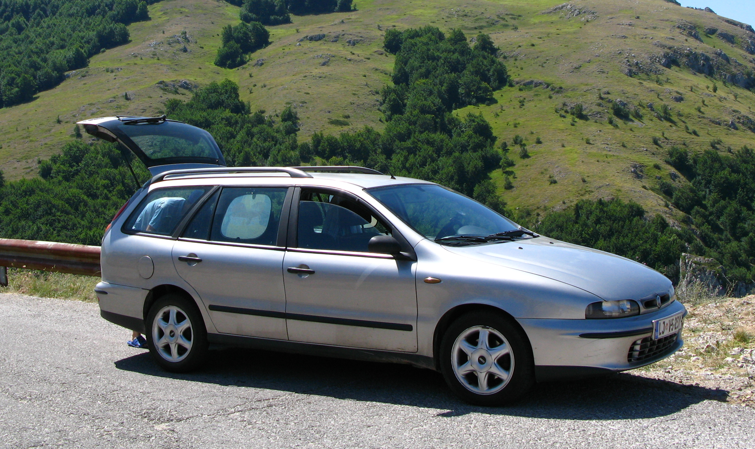 Fiat Marea Weekend JTD 1,9 110 PS.